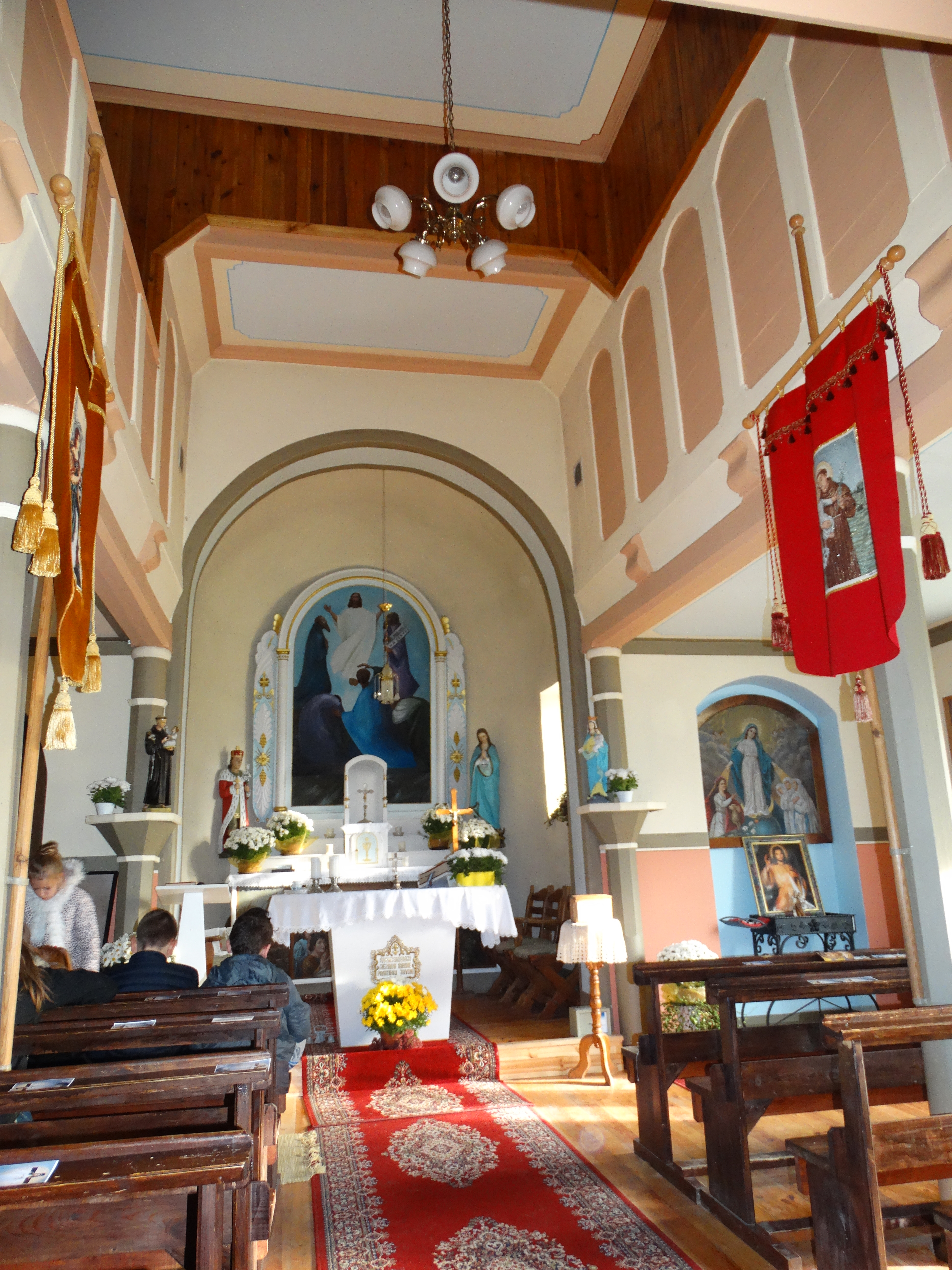 Catholic Church, Viešvilė, Jurbarkas District, Lithuania